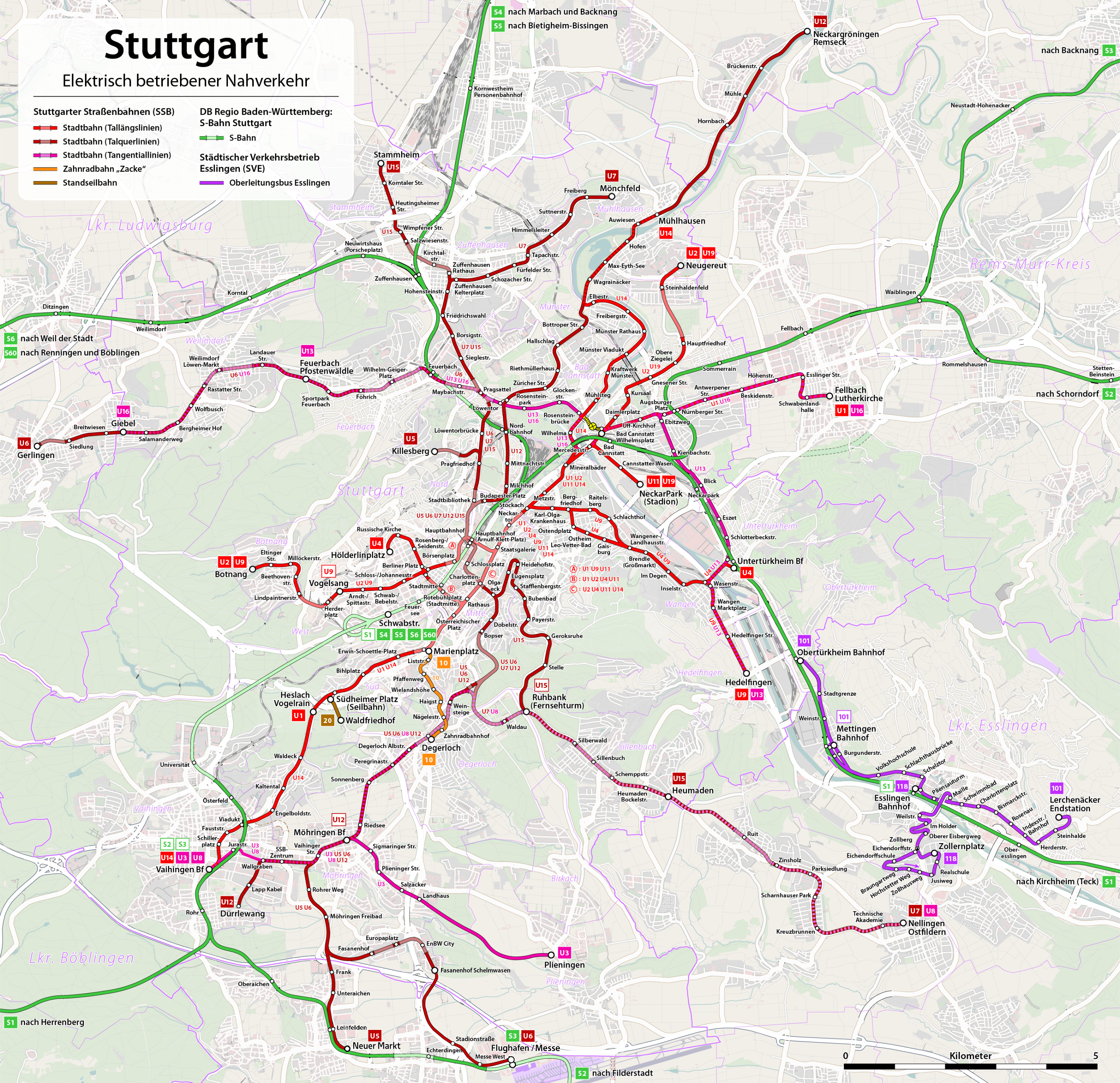 Map of the Stuttgart tramway system and the Esslingen trolleybus network 2010